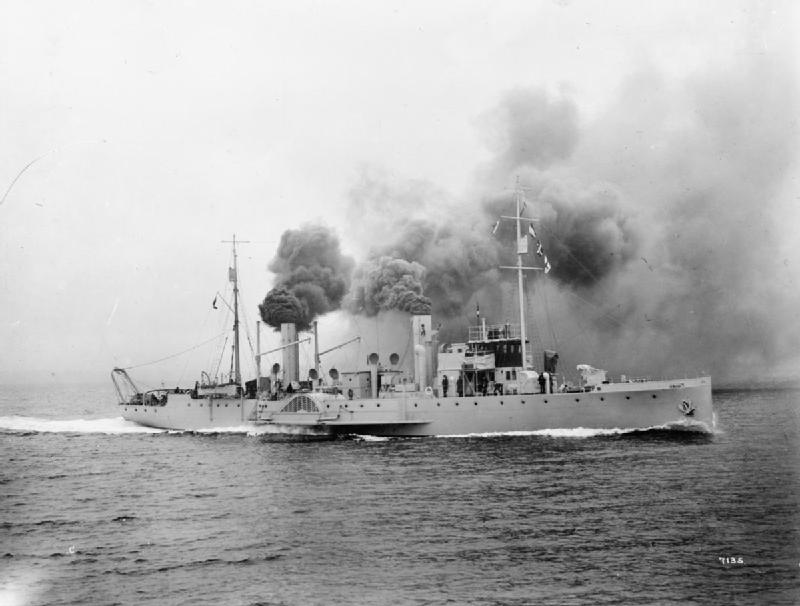 Photograph of British paddle minesweeper HMS Atherstone.